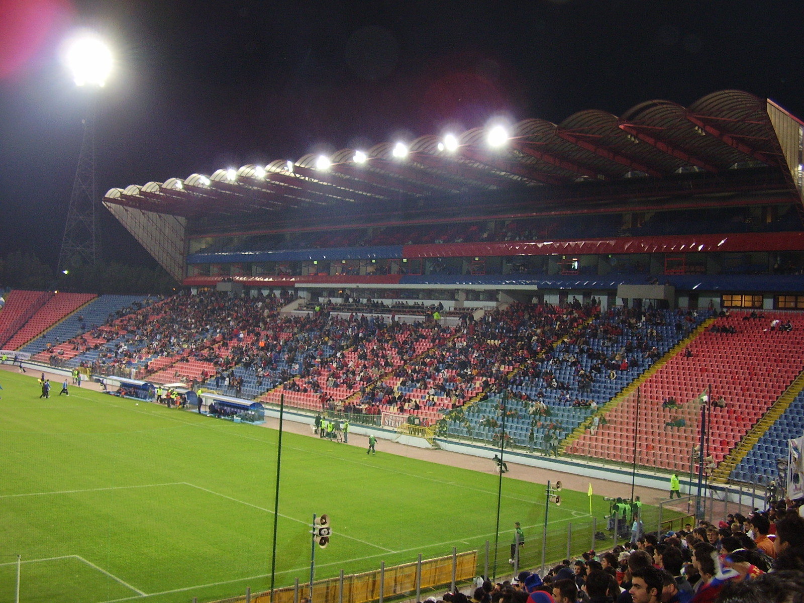 Stadionul Ghencea at Liga I match between home side Steaua and visitors Unirea Urziceni.